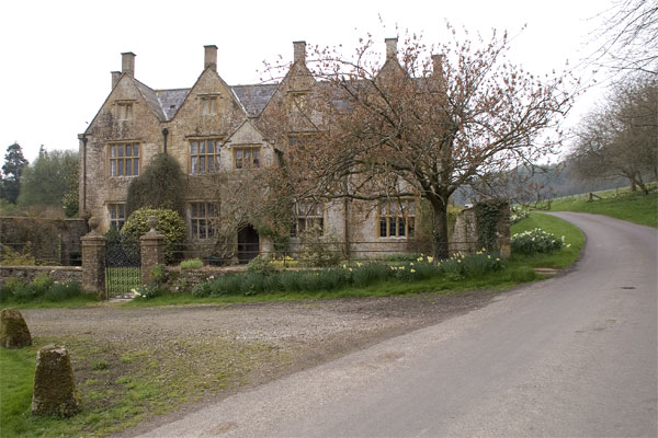 Manor House at Higher Wraxall. Wraxall is divided into two tiny hamlets. Higher Wraxall has this fine large stone manor house, built around 1630 and extended in the 19th century, with a few cottages and a farm.